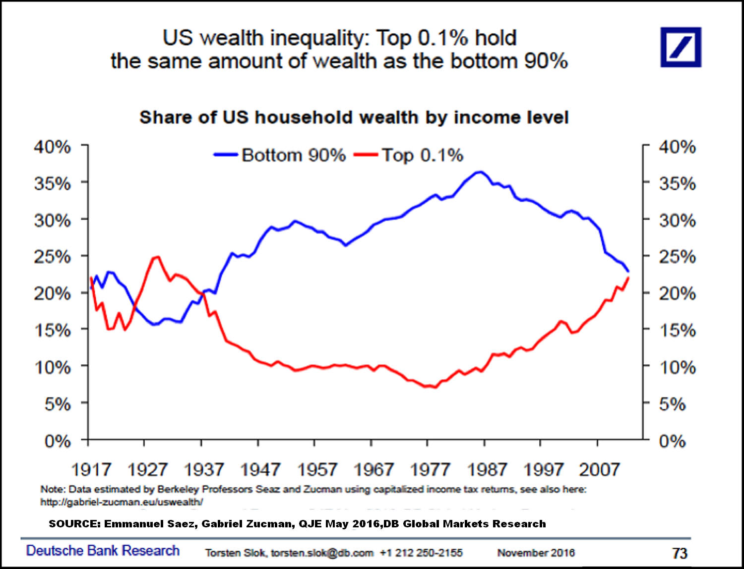 US wealth inequality: Top 0.1% hold the same amount of wealth as the bottom 90% (DEUTSCHE BANK RESEARCH)